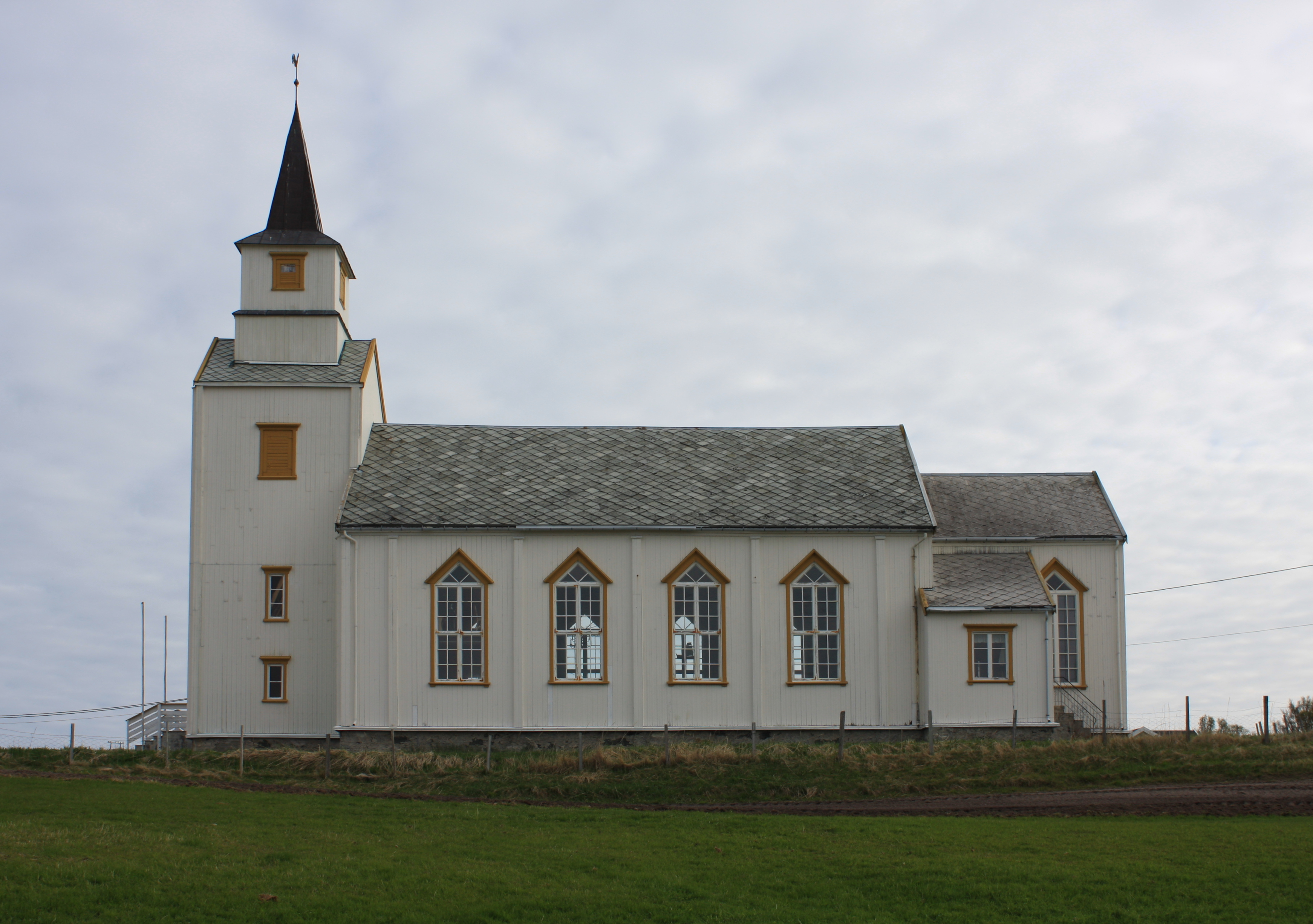 A church from 1889 in Tromsø kommune, Norway.